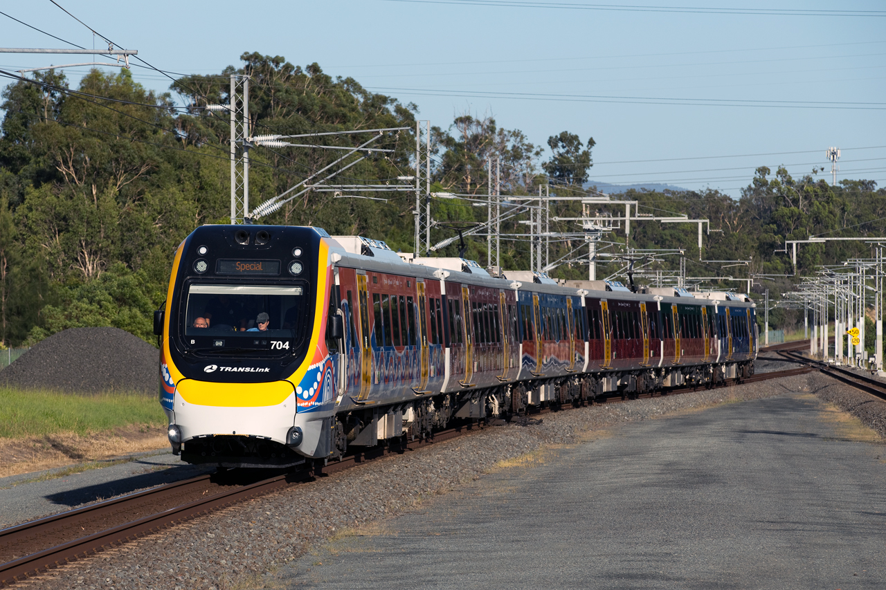 Almost two years after arriving in Australia, the 700 Series Electric Multiple Unit enter service for Queensland Rail. On December 11, 2017, 700 Series EMU 704 approaches Varsity Lakes on the Gold Coast Line to form Varsity Lakes-Brisbane Airport service, CityTrain #DP17.